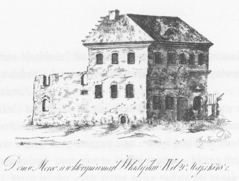 House in Merkinė where Władysław IV died 20th May 1648.